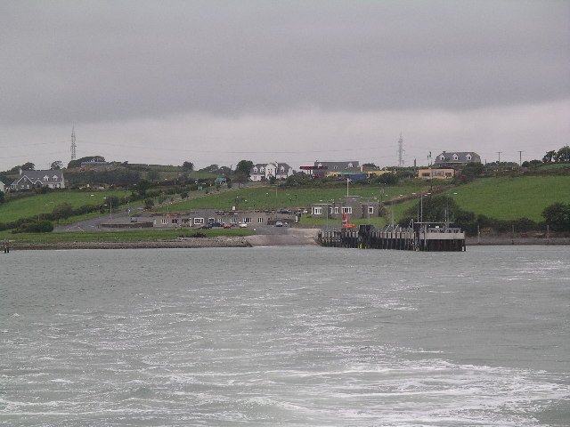 Killimer Ferryport. Clare side of the Killimer/Tarbert Shannon crossing. Taken from the Ferry